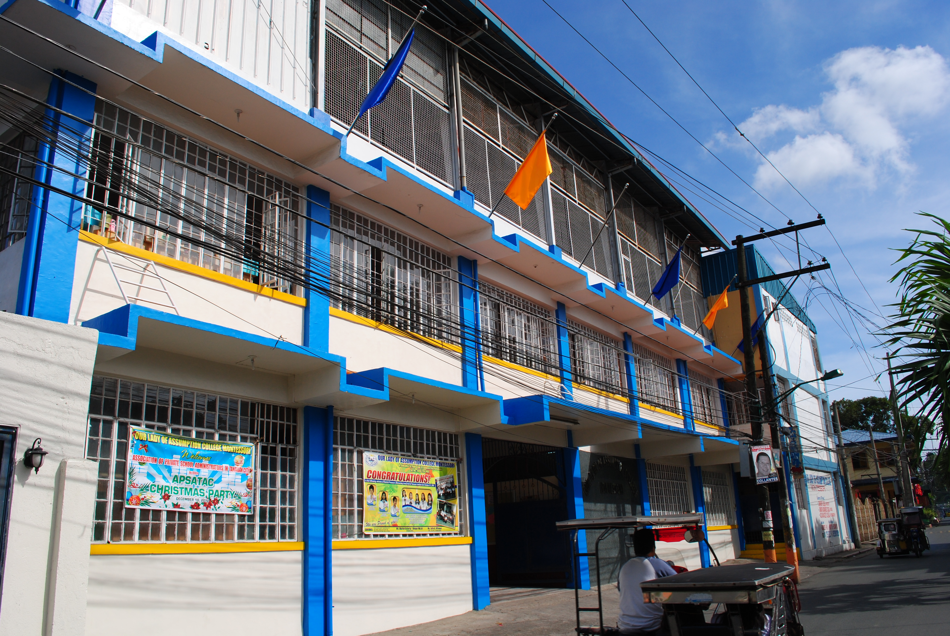 Tanauan Building